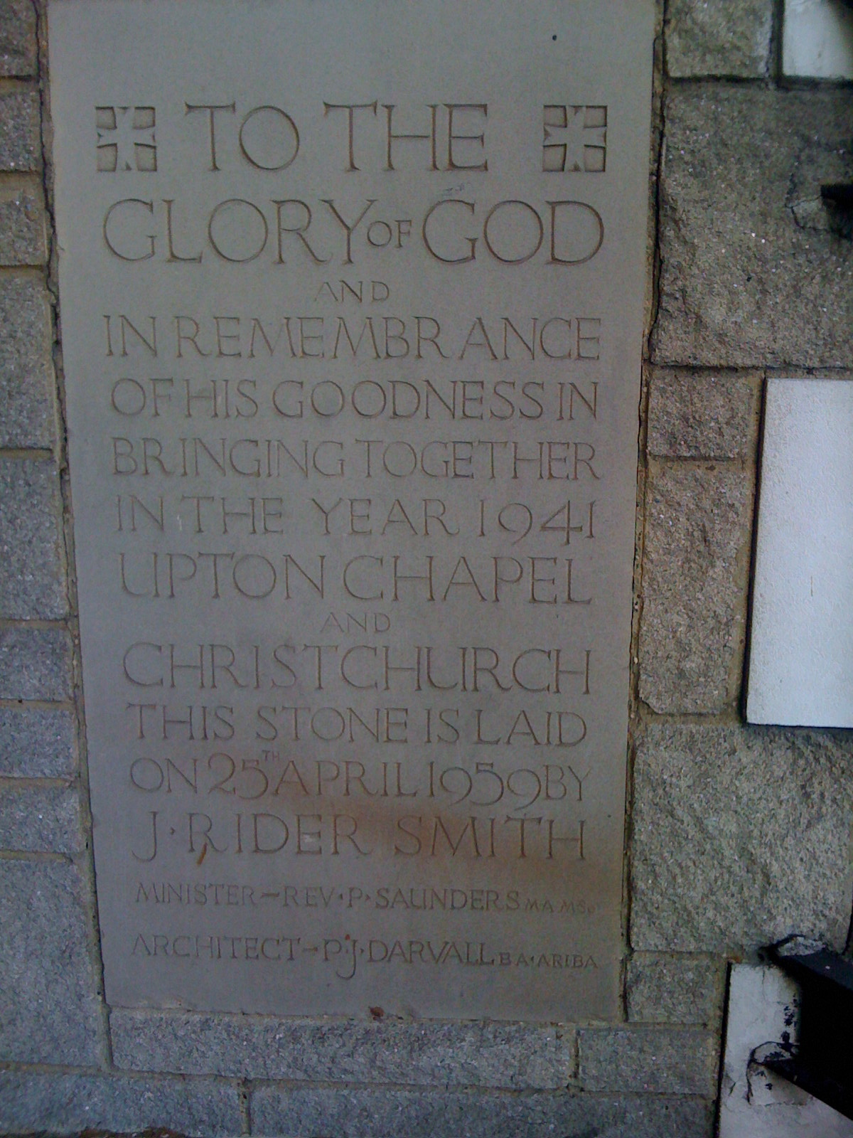 Foundation stone for the new Christ Church & upton chapel, Lambeth dated 1959